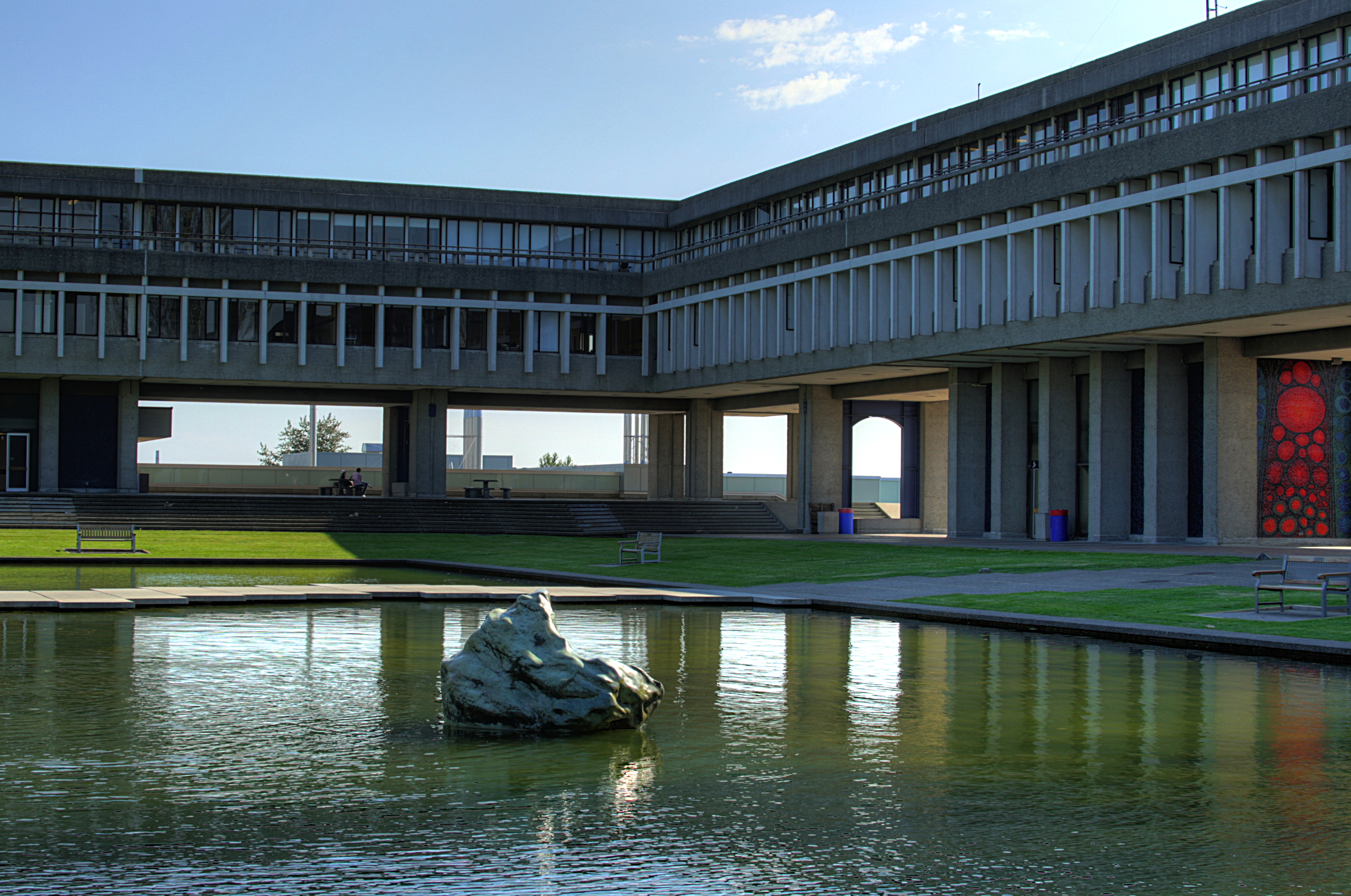 Courtyard of Academic Quadrangle, Simon Fraser University, Burnaby, British Columbia, Canada.